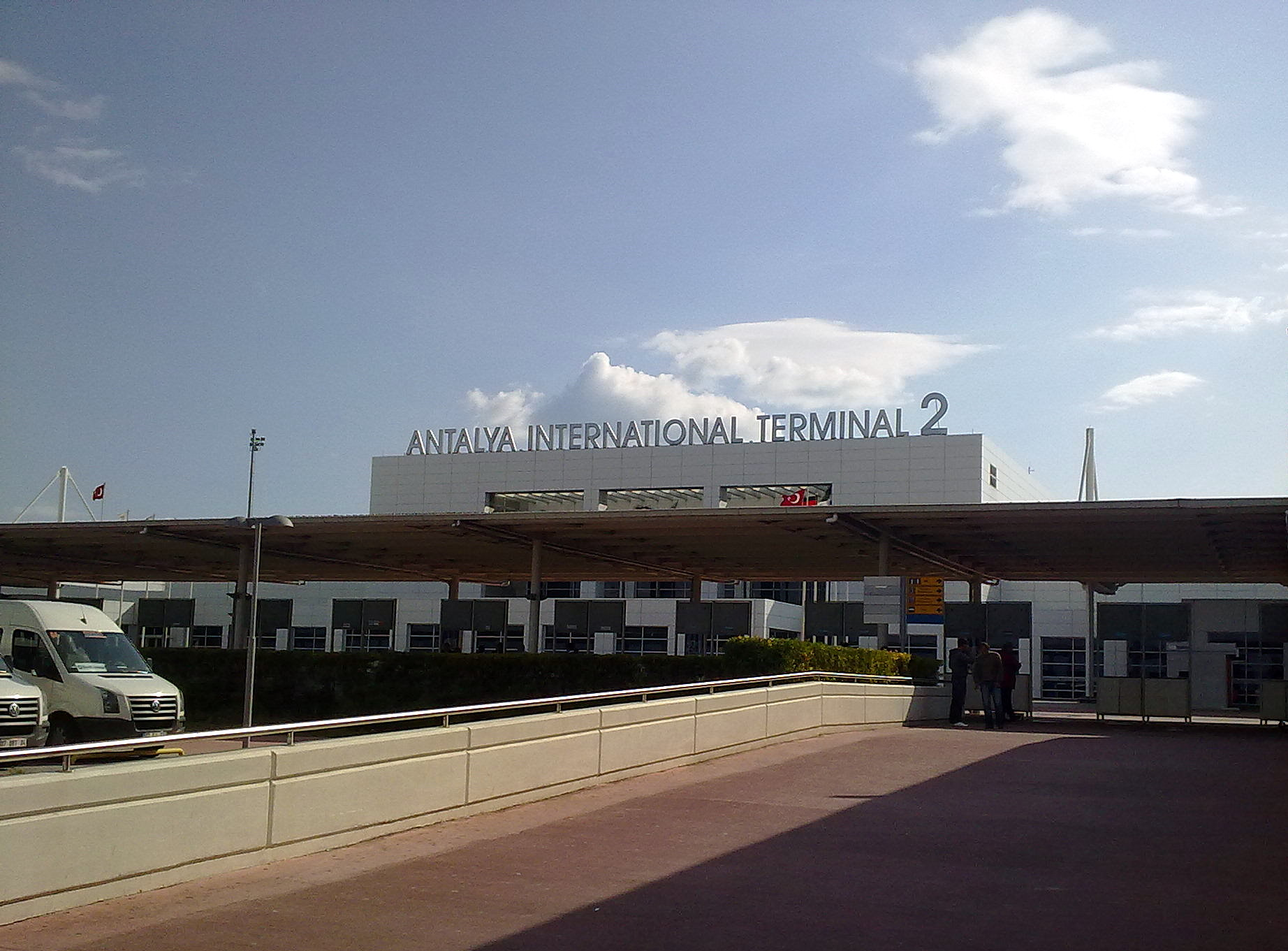 Airport Antalya International - Terminal 2